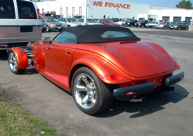 Plymouth Prowler, rear view